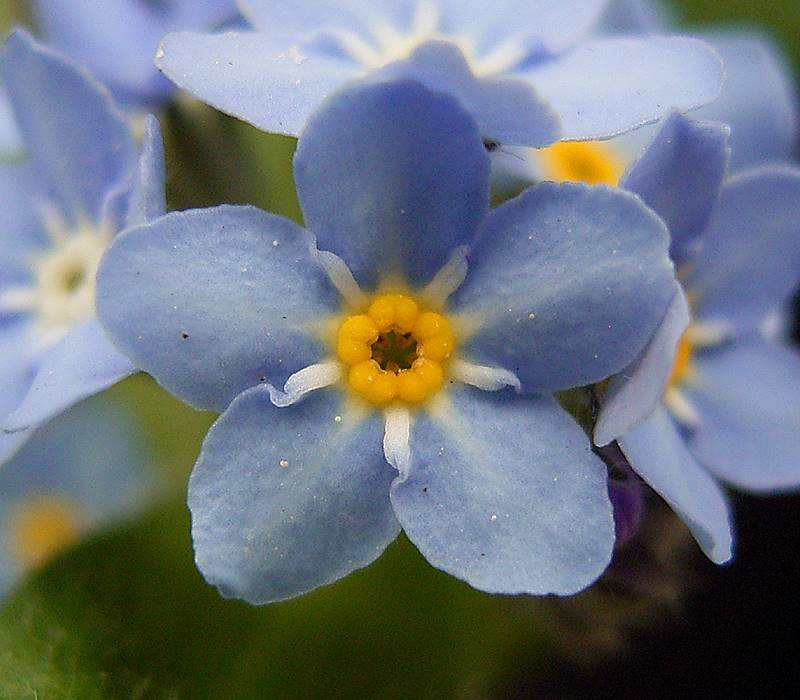 Myosotis sylvatica